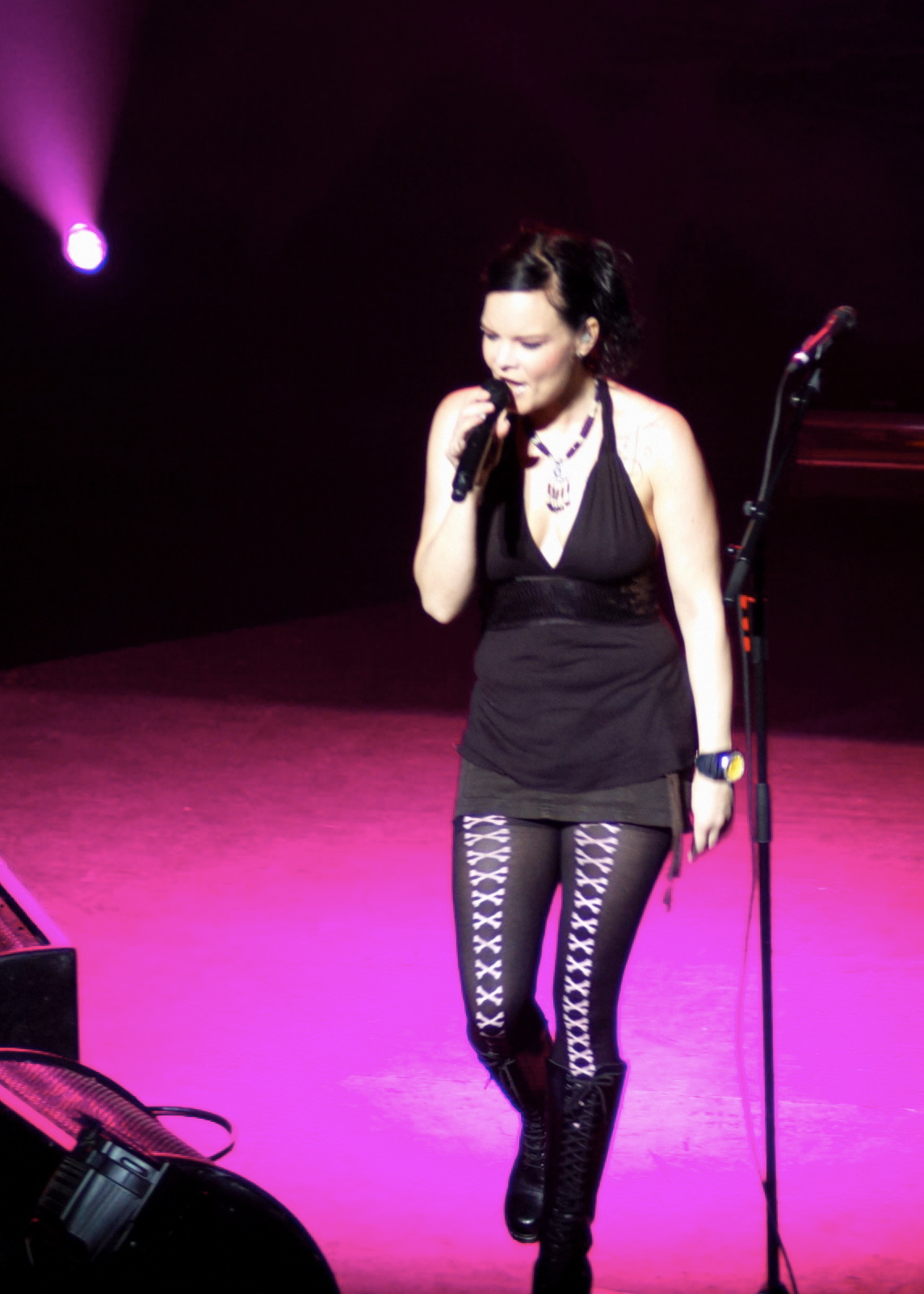 Anette Olzon singing at a Nightwish concert at The Palais in Melbourne, Australia, in January 2008.